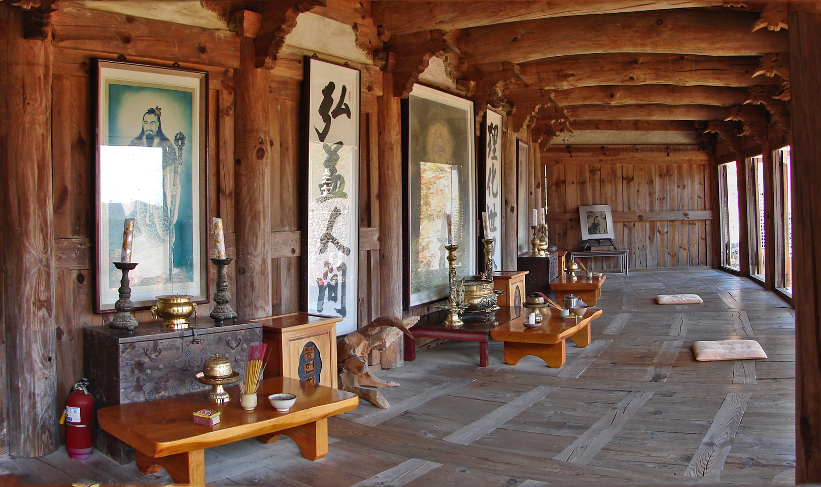 Interior of Cheongung, or the main Shrine Hall of the Three Sages, on the grounds of Samseonggung. Samseonggung Shrine is dedicated to the traditional worship of the three mythical creators of Korea: Whanin, Whanung, and Dangun.